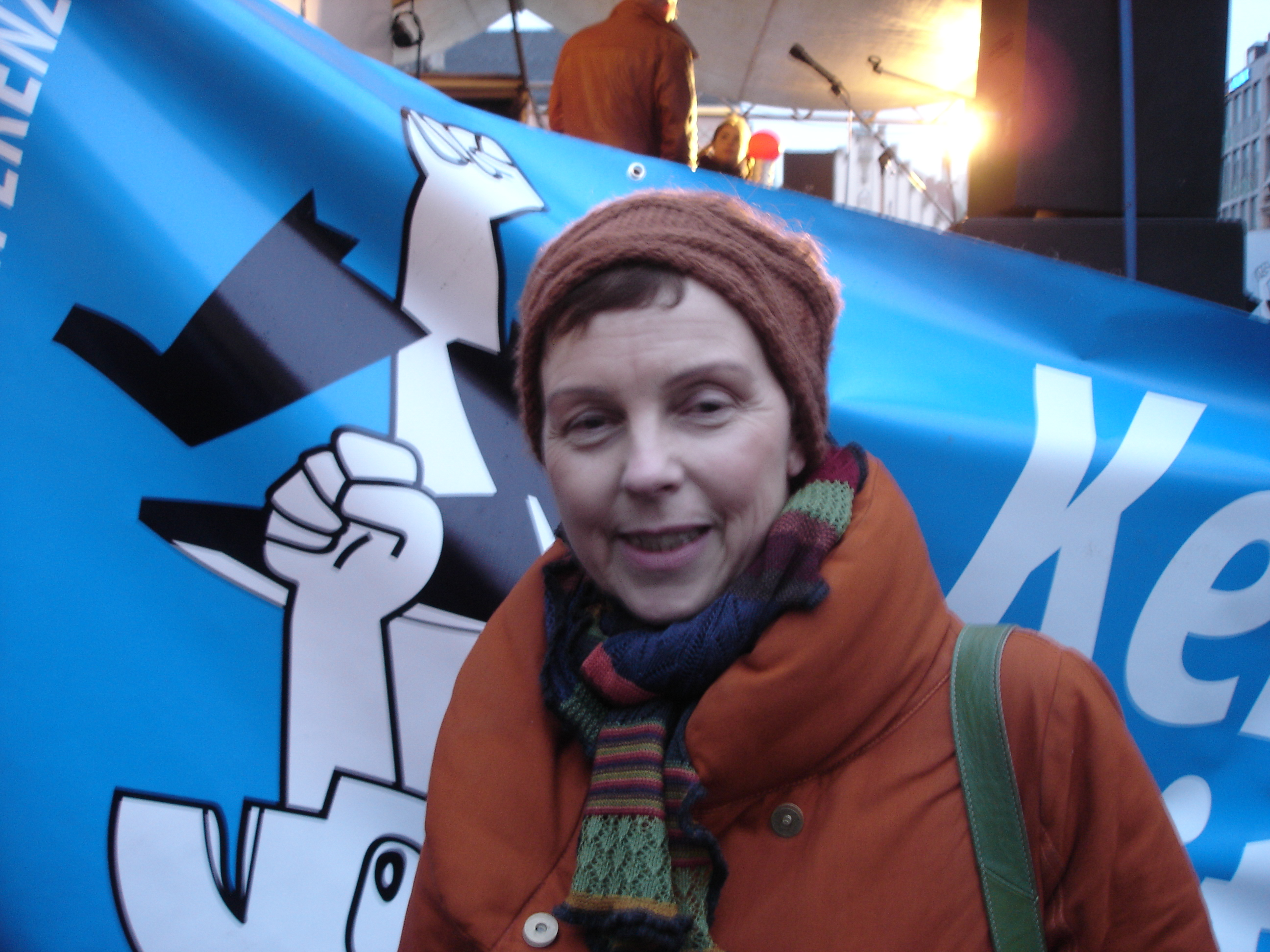 Sabine Leidig of the german leftist party